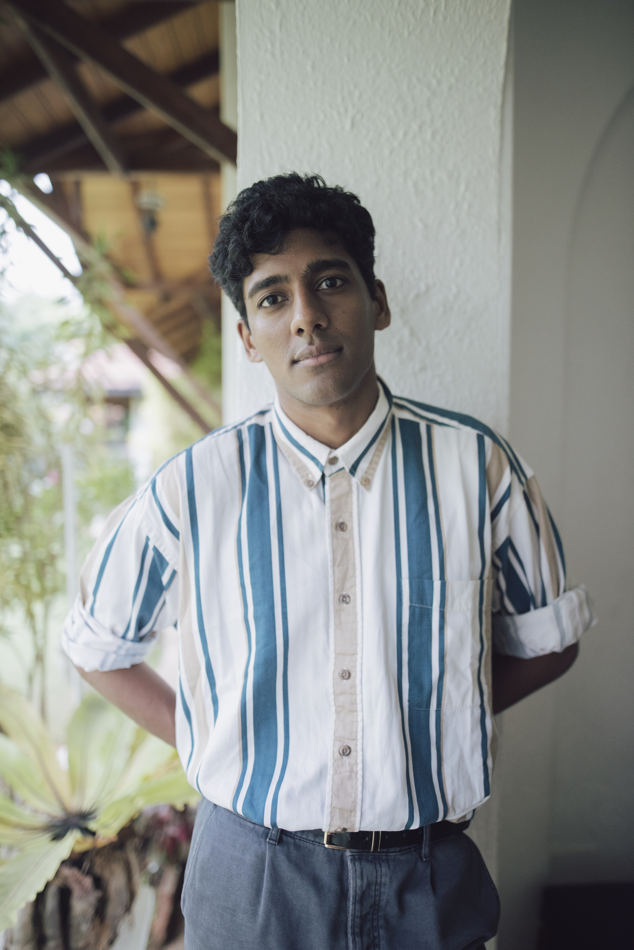 Aruk Arudpragasam in Colombo, Sri Lanka